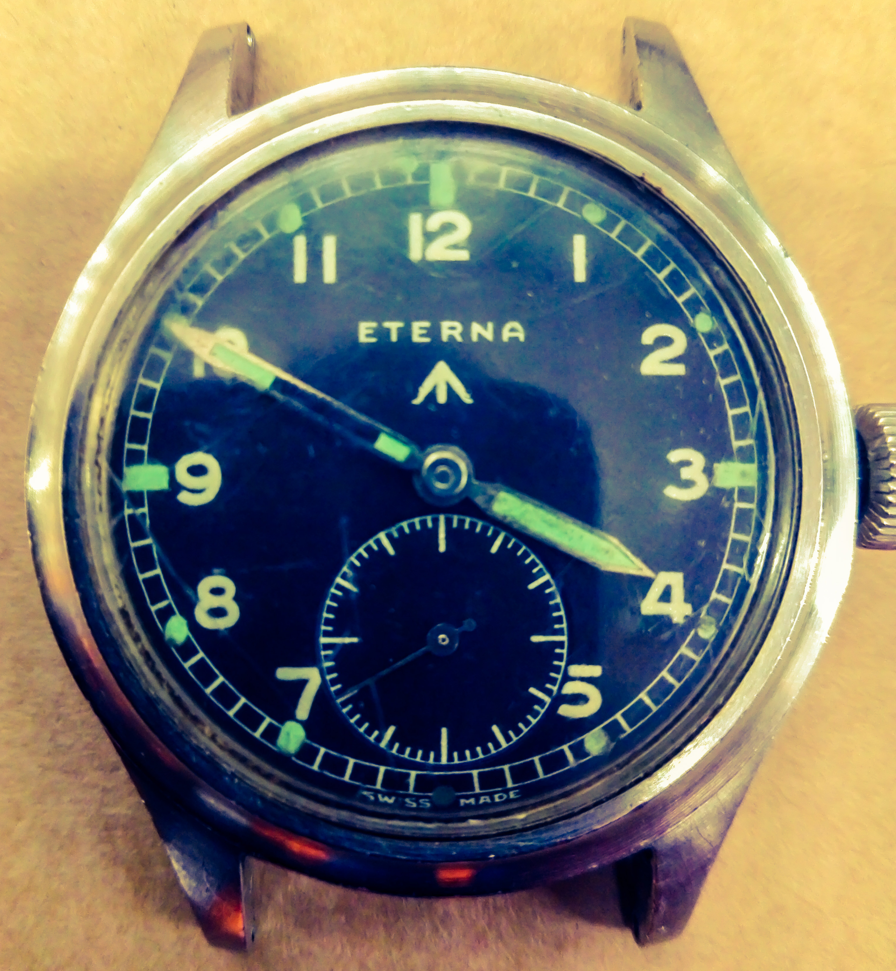 A view of the dial of an Eterna made Waterproof wristlet watch.